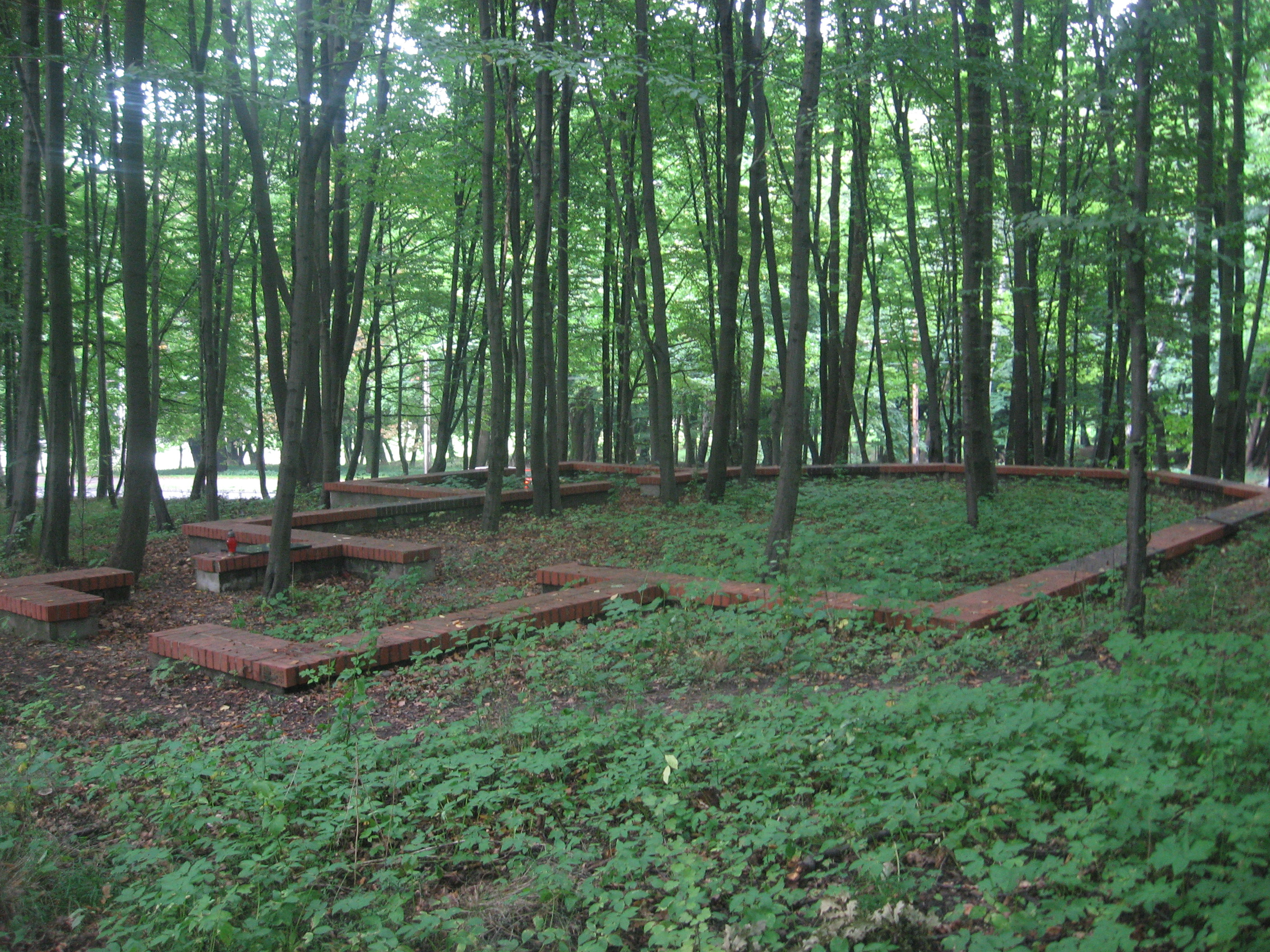 Foundations of the church of St. Joseph in Gdynia.